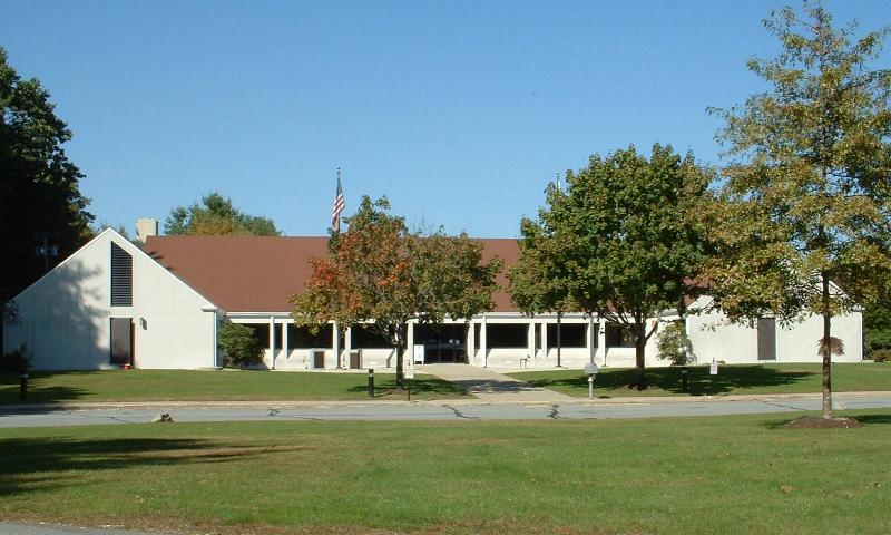 Seekonk's town hall, located off of Route 44.